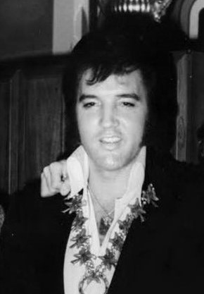 Photo of Elvis Presley at the Las Vegas Hilton on August 5, 1972.